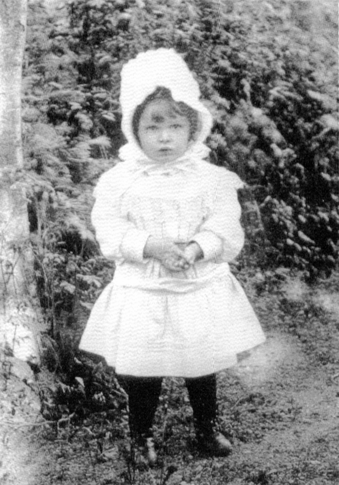 Photograph of August Strindberg's and Harriet Bosse's daughter Anne-Marie, aged three.